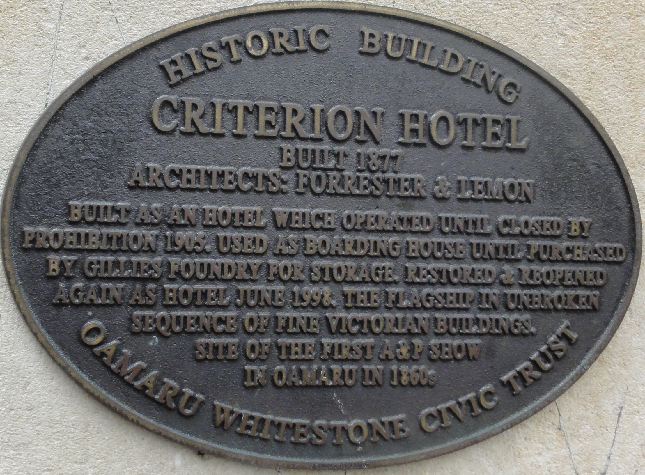 Criterion hotel, Oamaru, New Zealand, plaque describing building's history